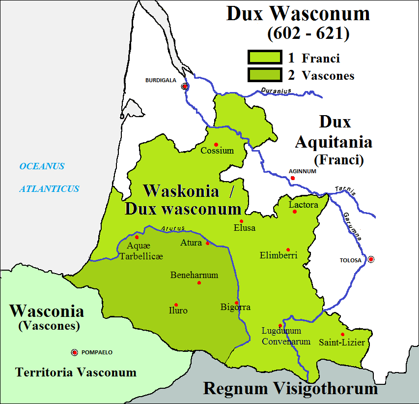 THIS MAP IS IN LATIN